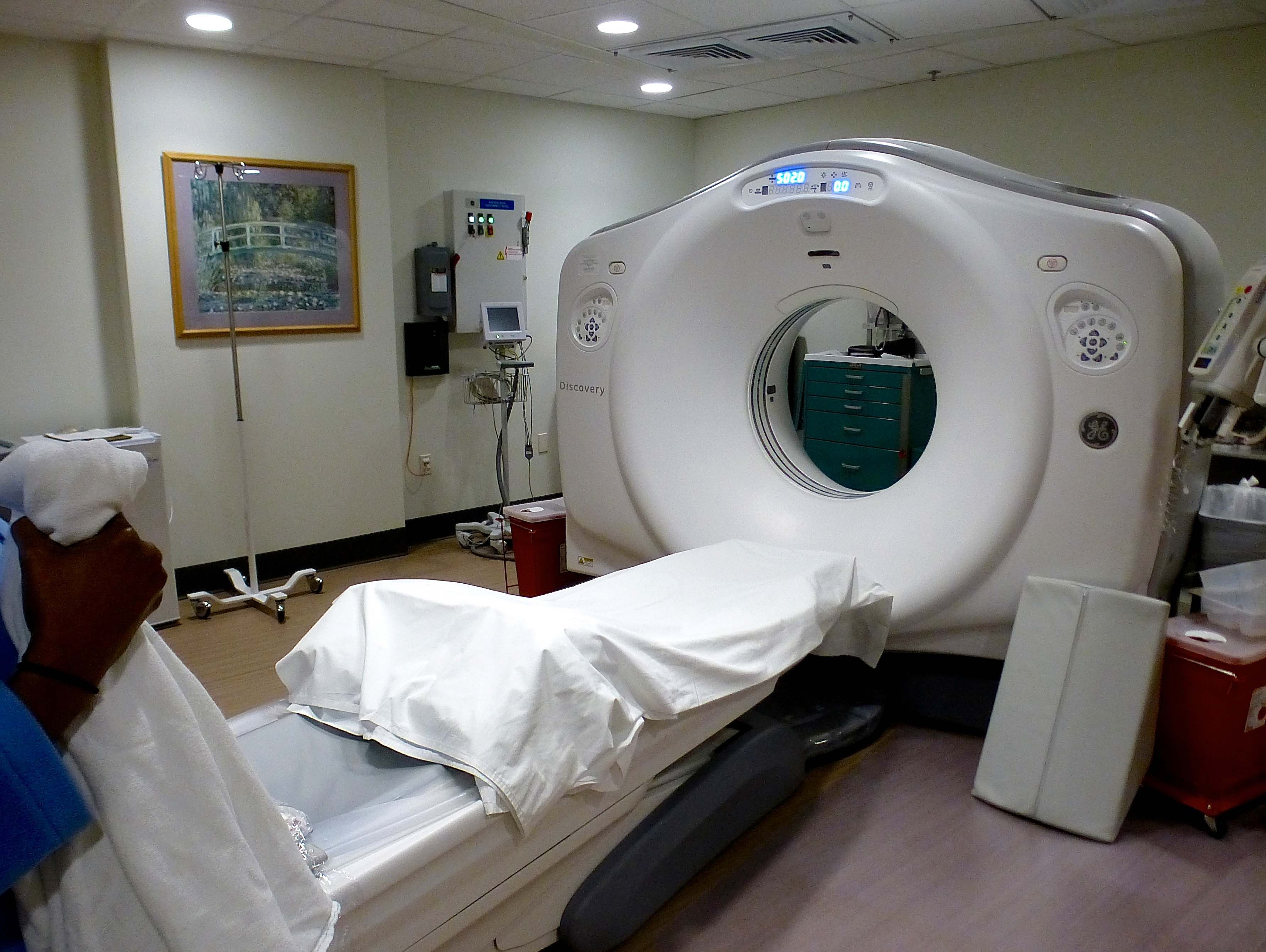 Years ago, I vowed to take pictures of every machine that took pictures of me. A few times, I missed an opportunity, but in general I've done pretty well. Cancer patients get lots of scans. I've had bone scans, CAT scans, PET scans, and MRI scans. These show whether a treatment is working or whether the disease is progressing. They are status updates. My latest was done at a Mass General Imaging Center in Waltham. What a nice place! They had weekend hours, which meant I got in and out without having to deal with workaday traffic.